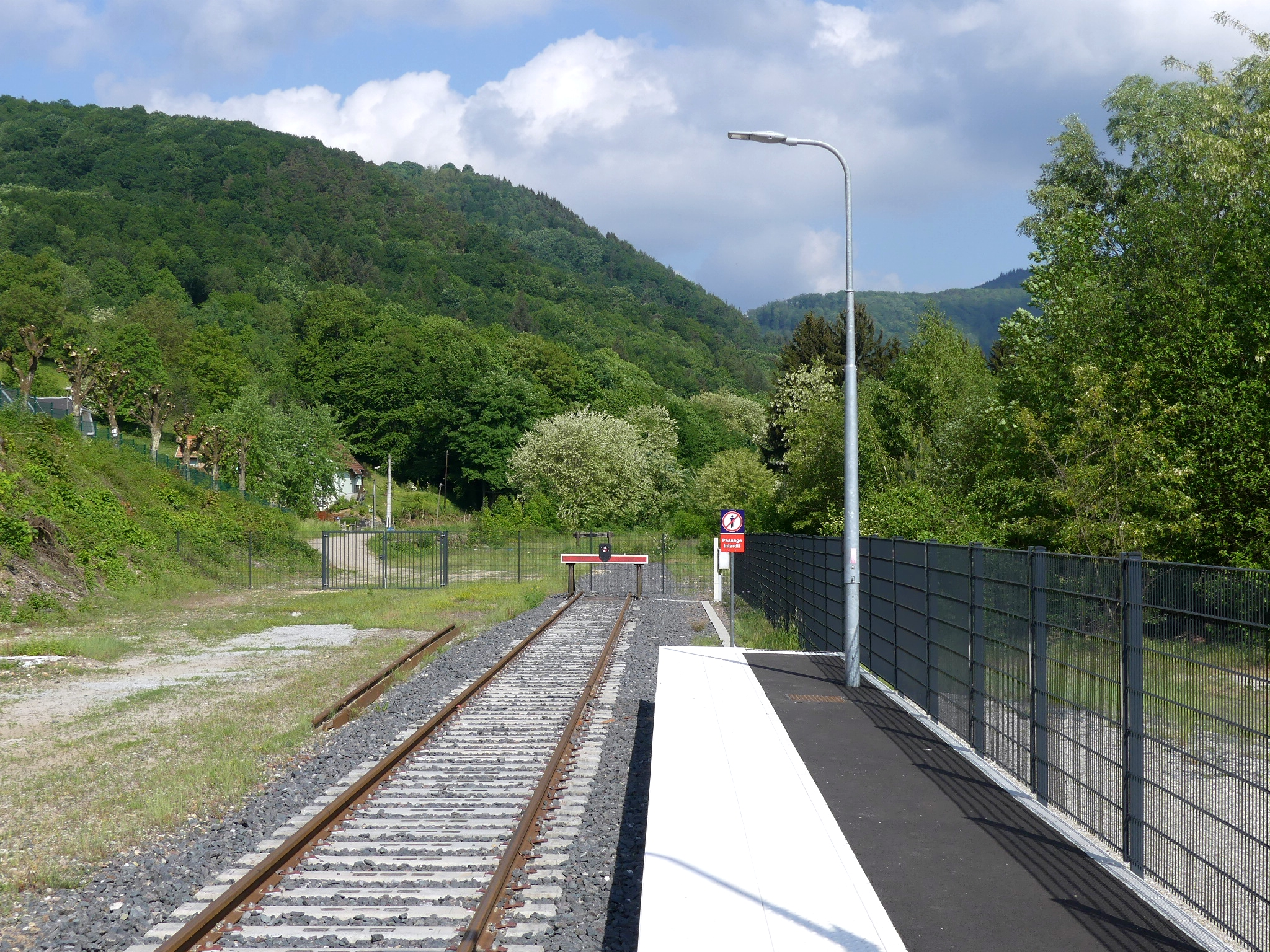 Sight of the end of the line coming from Haguenau, in Niederbronn-les-Bains railway station, in North-western Alsace. By the past, the line used to lead to Bitche in Lorraine.